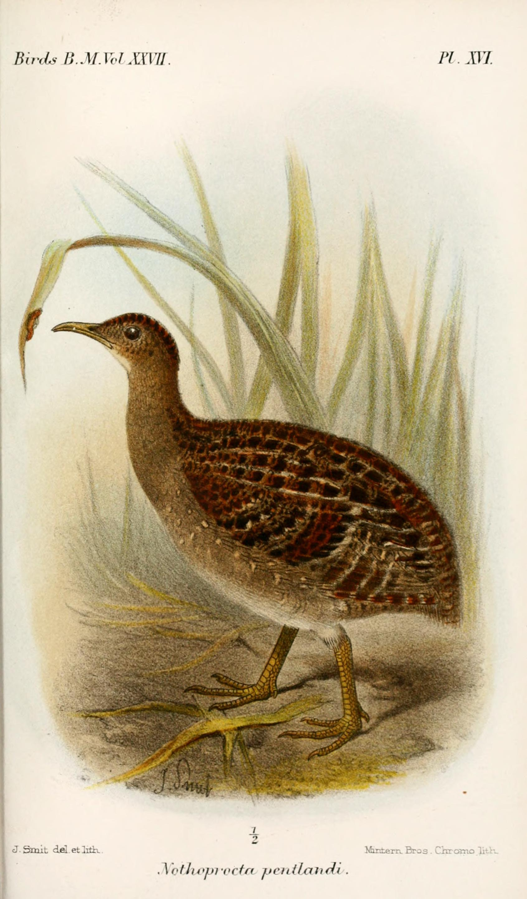 Nothoprocta pentlandi, Andean Tinamou